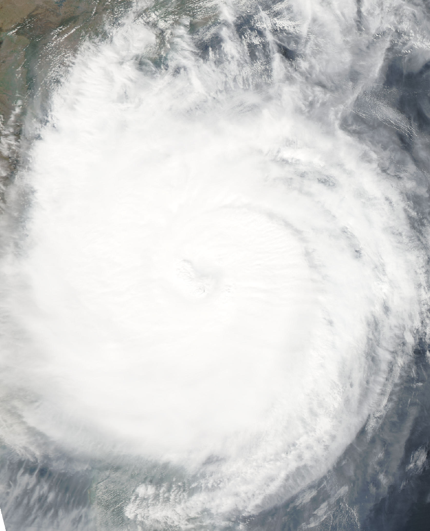 Cyclone Thane on 29 December 2011 over the Bay of Bengal. At that time Thane was located approximately 200 km southeast of Chennai, with highest winds of 130 km/h, a strength equivalent to a Category 1 Hurricane.